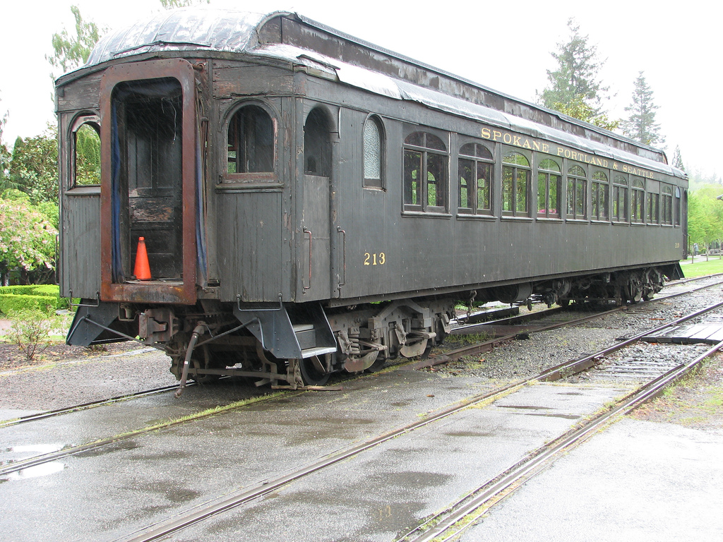 A train found at the Northwest Railway Museum in Snoqualmie. Spokane Portland & Seattle Passenger car #213